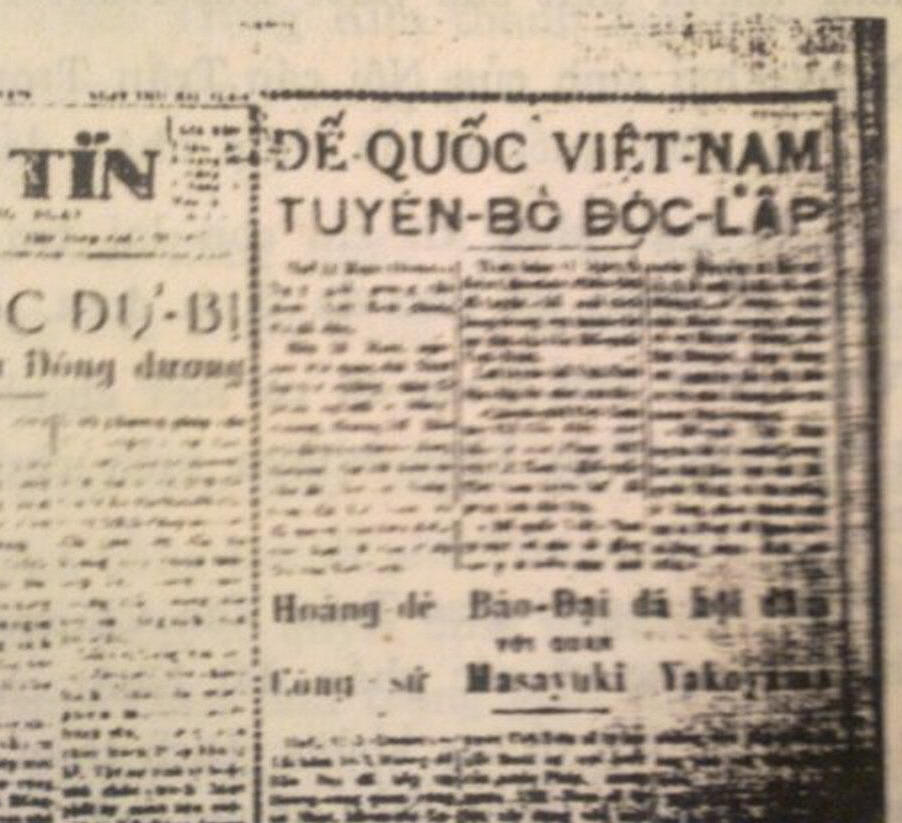 Empire of Vietnam (越南帝國 / Đế quốc Việt Nam) proclaim independence, 11 March 1945.